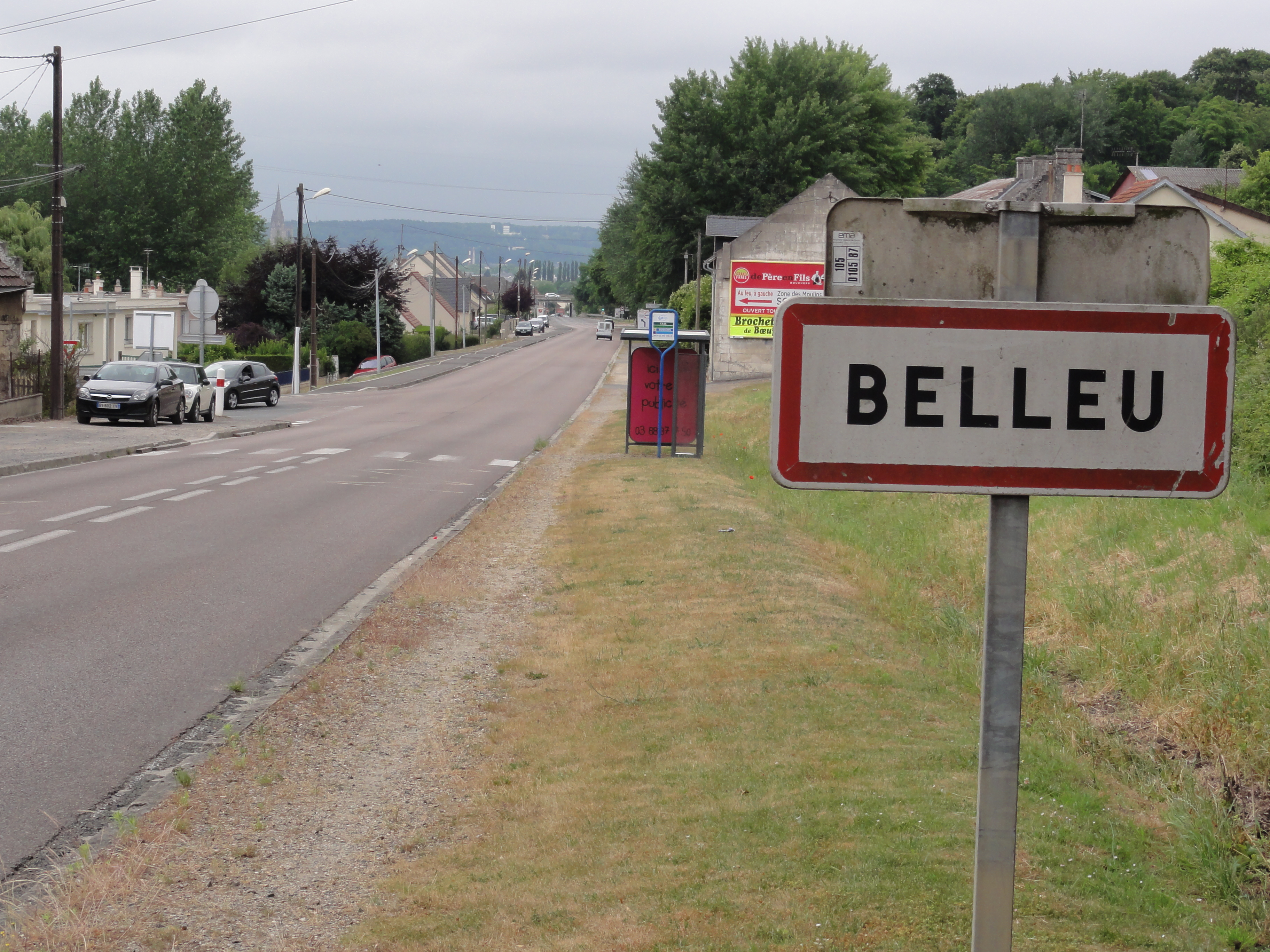 Belleu (Aisne) city limit sign